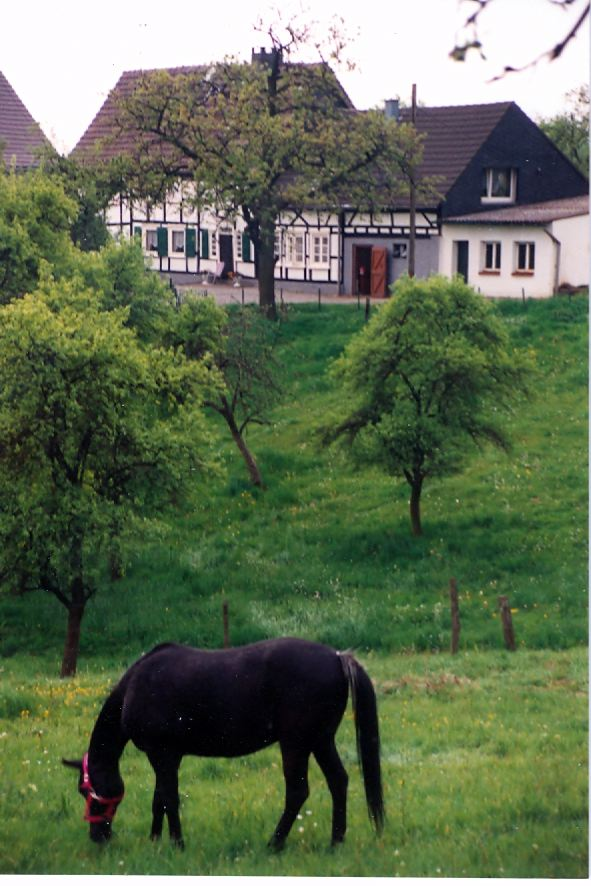 Farmhouse 'Unterwinkelhausen' (or 'Niederwinkelhausen'), Wermelskirchen, North Rhine-Westphalia, Germany.